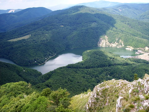 Ruzin